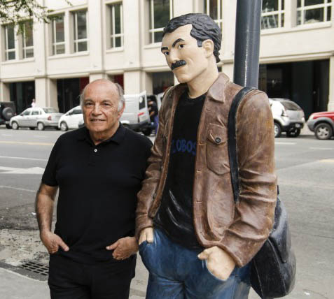 Argentine artist Horacio Altuna posing with the statue of El Loco Chávez, one of his most popular creations, on the "Paseo de la Historieta" (Cartoon Walk). Corner of Juana Manso & Azucena Villaflor streets, Buenos Aires.